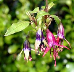 I took this photo (Fuchsia excorticata, or Kōtukutuku, a tree fuschia endemic to New Zealand).